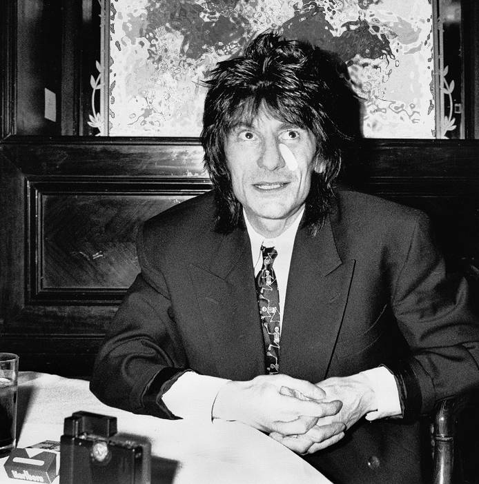 Ronnie Wood in 1988 in Malmö at a vernissage of his art at Hotel Cramer. The artwork by Ronnie Wood in the background was garbled because of copyright reasons.